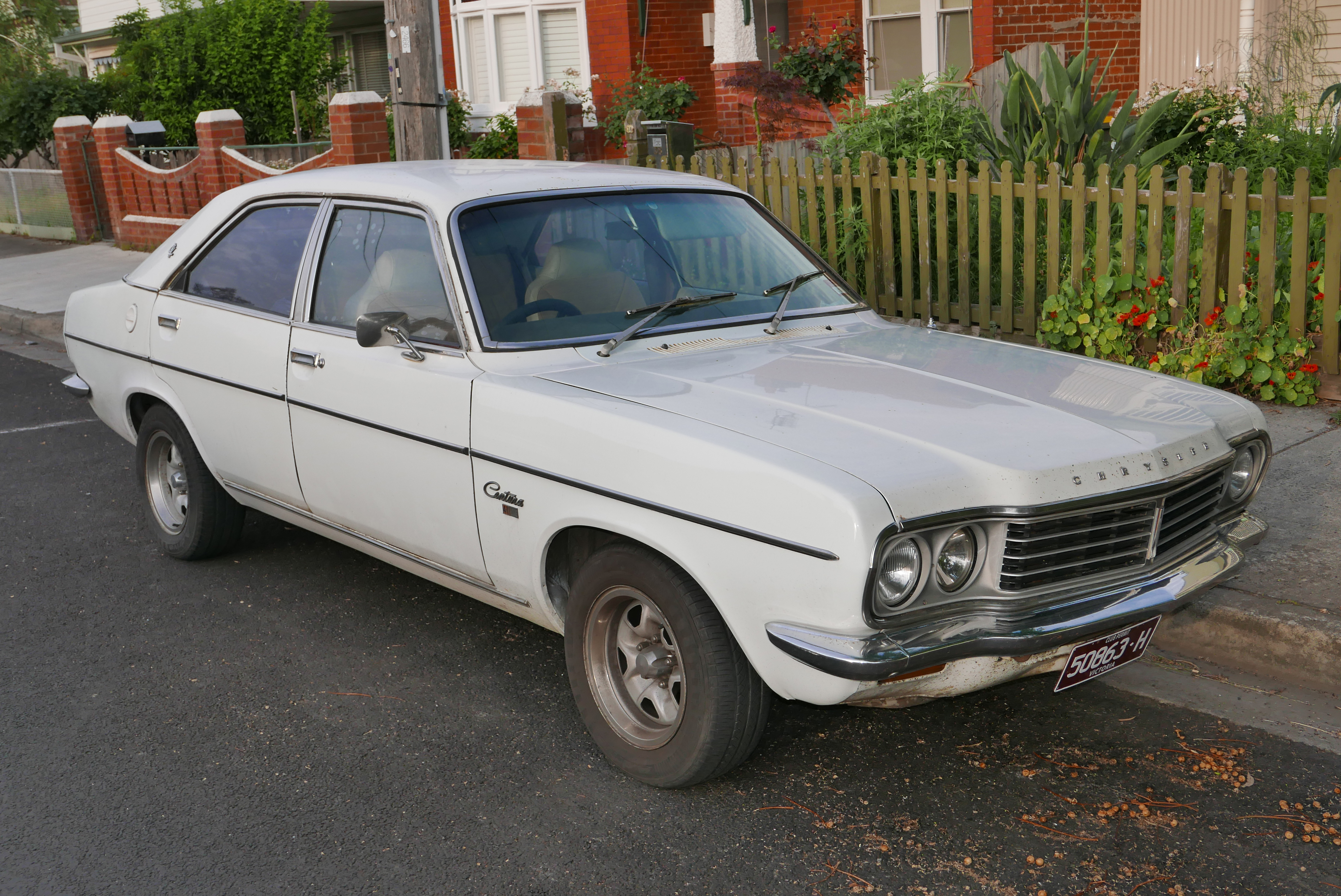 1975–1977 Chrysler Centura (KB) GL sedan. Photographed in Brunswick, Victoria, Australia.